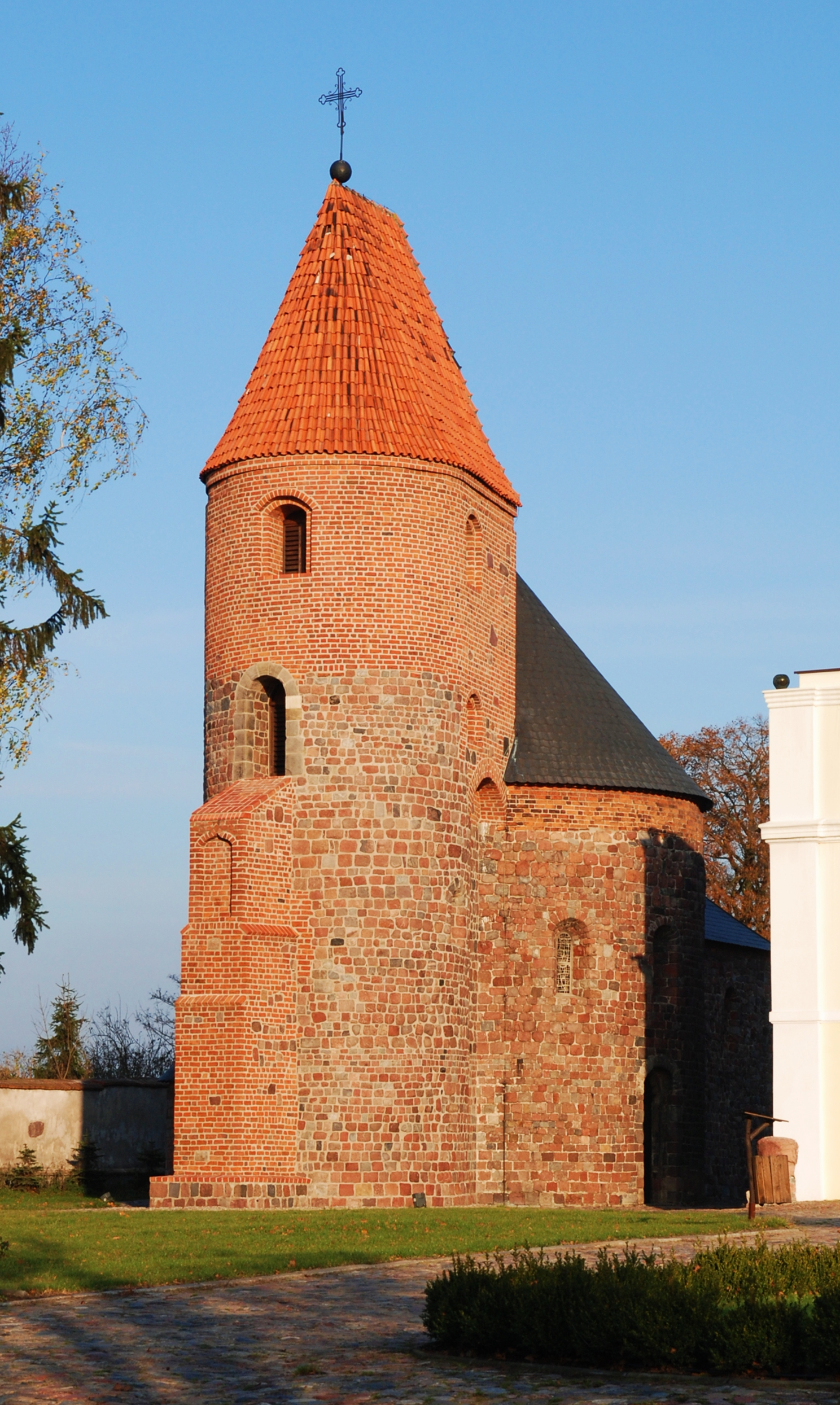 Church of St. Prokop in Strzelno